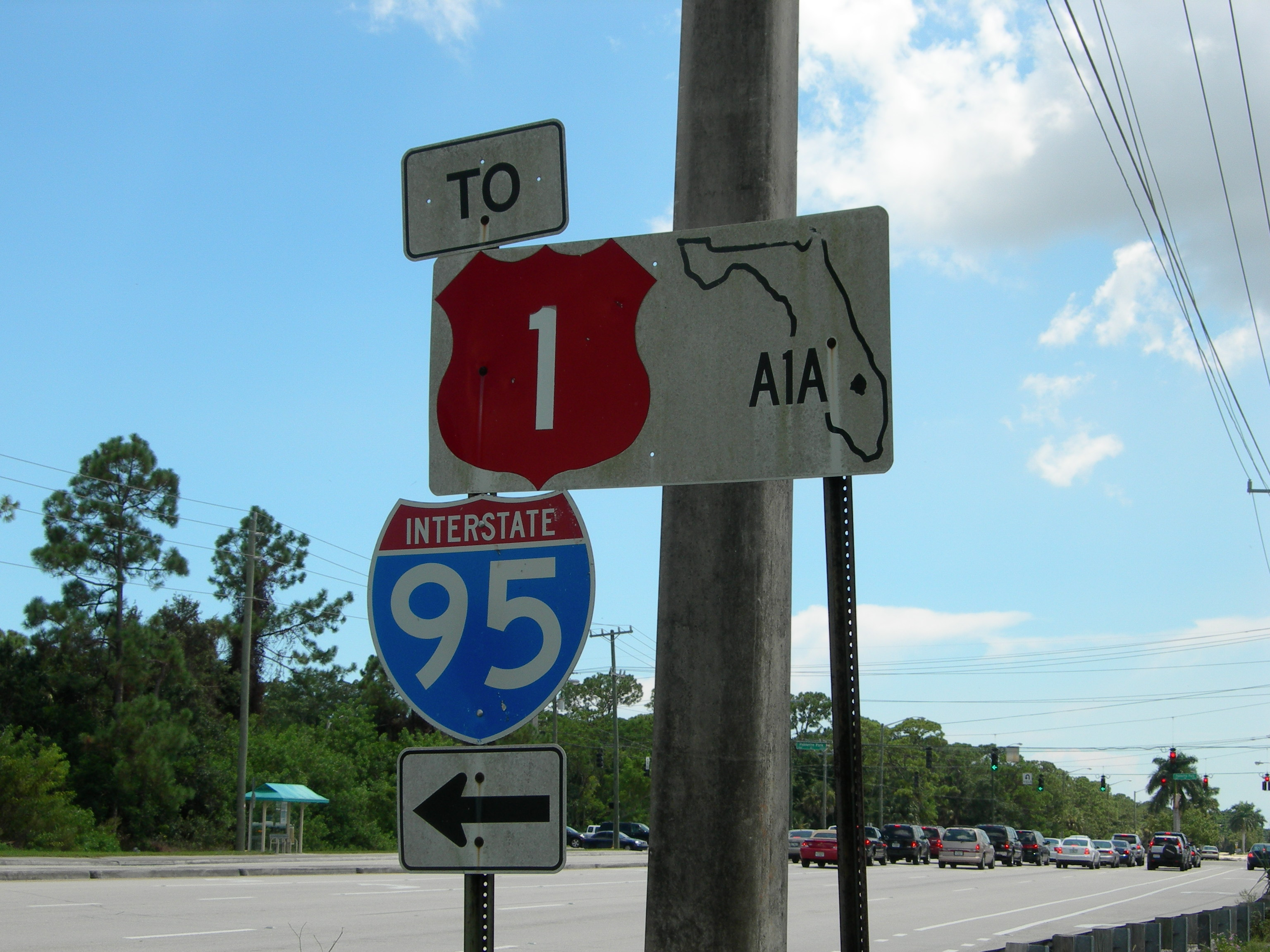 An old red sign for U.S. Route 1 in Boca Raton, Florida. Signage is also here for Florida State Road A1A and Interstate 95.